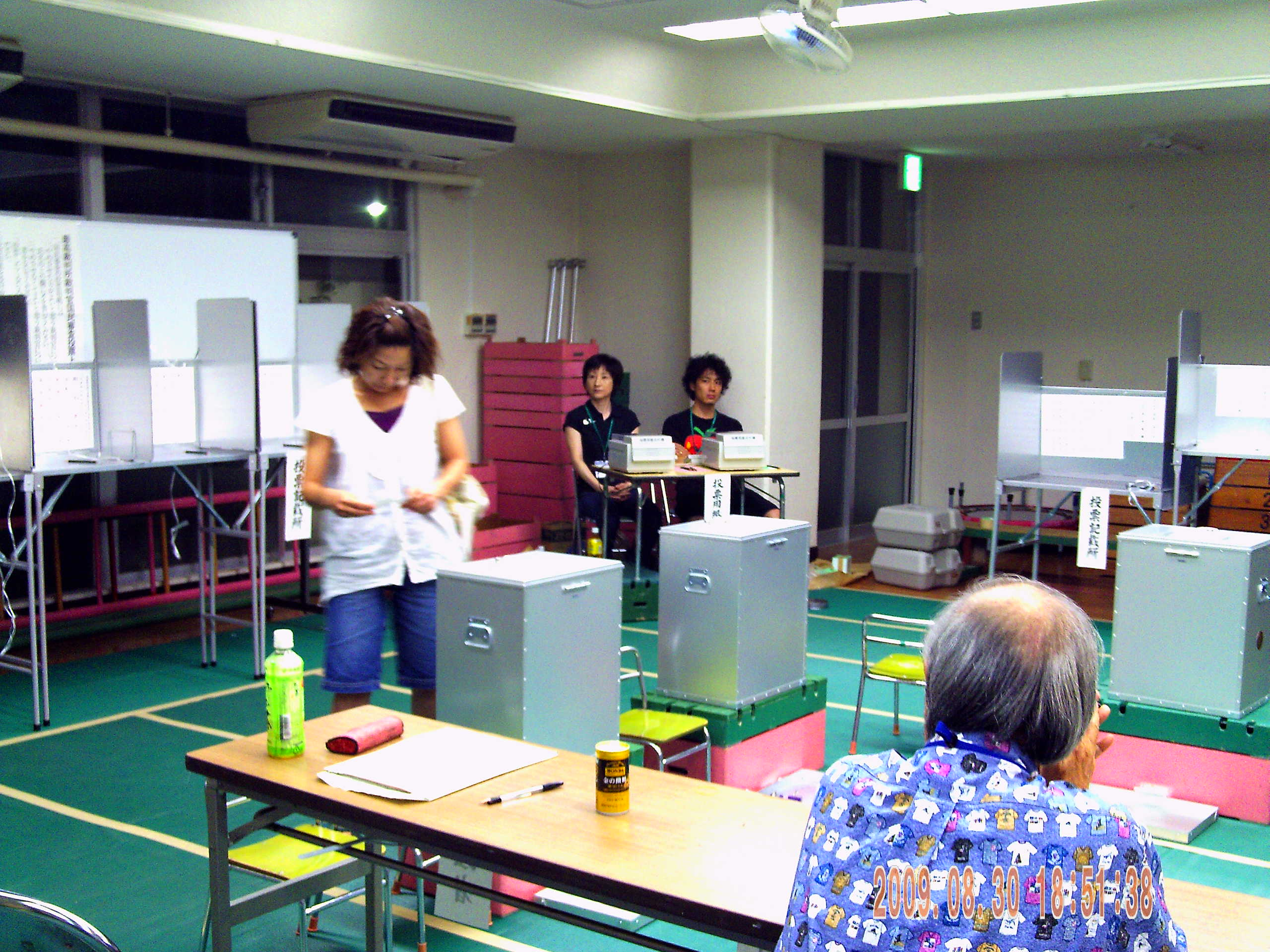 2009Election at Higashi-Osaka